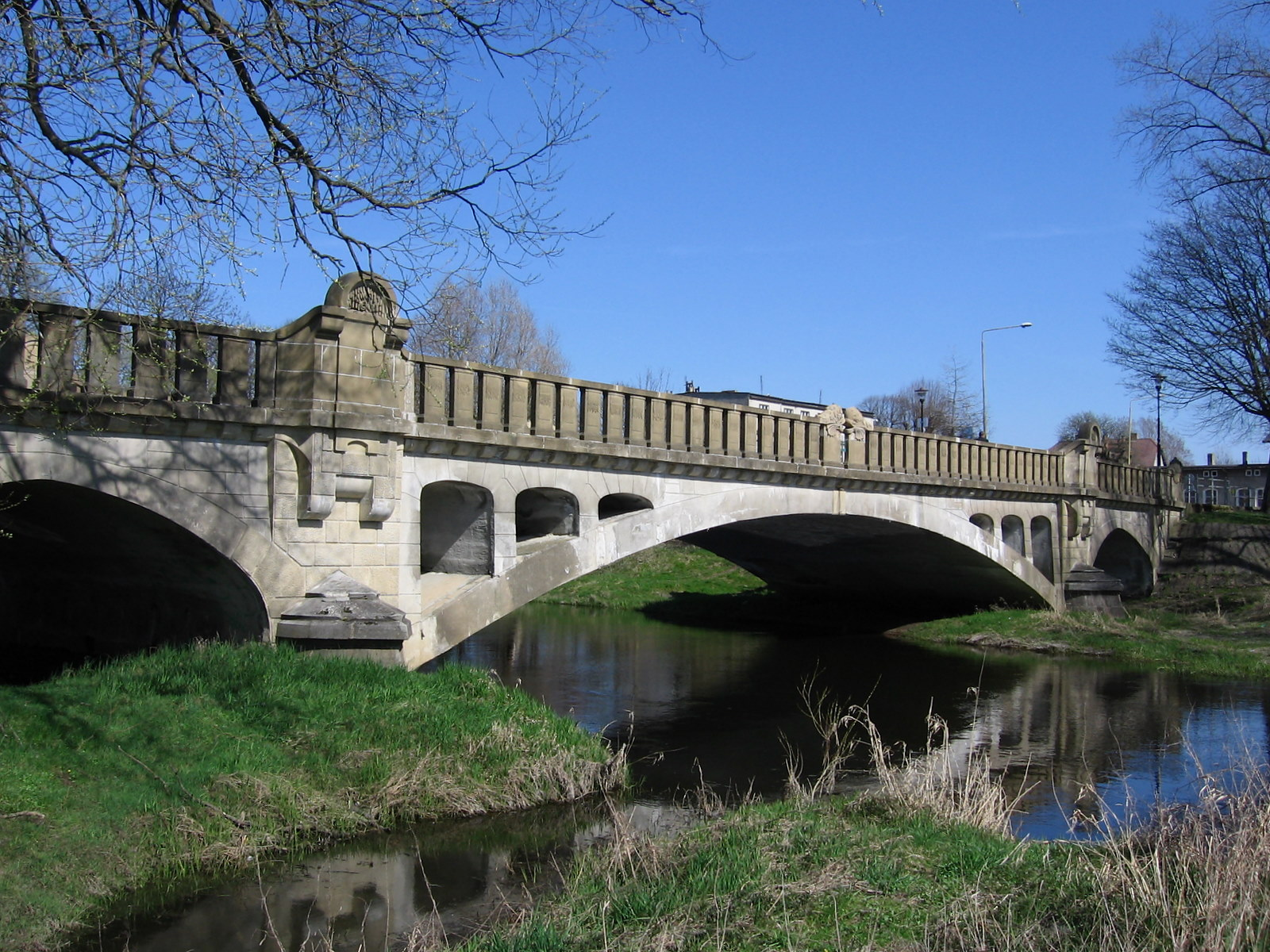 Dworcowy Bridge over Rega river in Trzebiatów, Poland